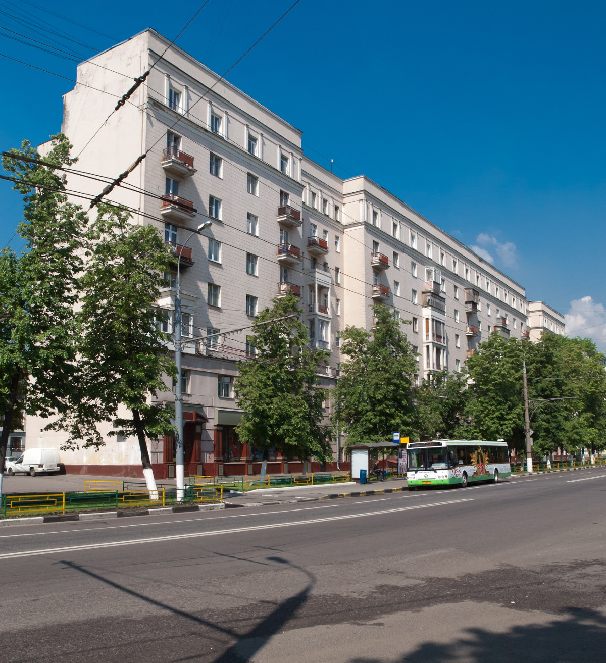 Aviamotornaya Street, Moscow.